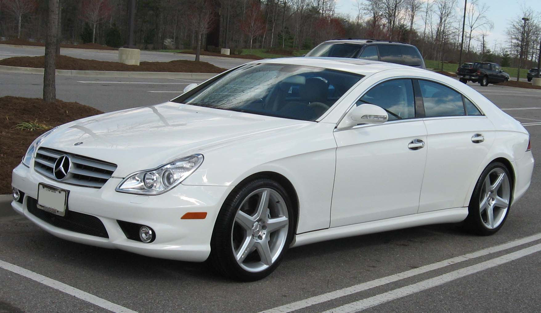 2006 Mercedes-Benz CLS55 AMG photographed in USA.